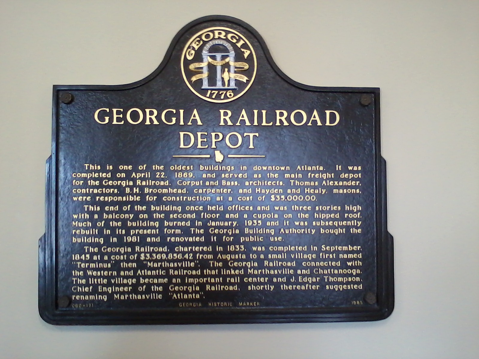 Georgia Railroad Depot - This is one of the oldest buildings in downtown Atlanta. It was completed on April 22, 1869, and served as the main freight depot for the Georgia Railroad. Corput and Bass, architects, Thomas Alexander, contractors, and Hayden and Healy, masons, were responsible for construction at a cost of $35,000.00. This end of the building once held offices and was three stories high with a balcony on the second floor and a cupola on the hipped roof. Much of the building burned in January, 1935 and it was subsequently rebuilt in its present form. The Georgia Building Authority bought the building in 1981 and renovated it for public use. The Georgia Railroad, chartered in 1833, was completed in September, 1845 at a cost of $3,369,856.42 from Augusta to a small village first named "Terminus" then "Marthasville". The Georgia Railroad connected with the Western and Atlantic Railroad that linked Marthasville and Chattanooga. The little village became an important rail center and J. Edgar Thompson, Chief Engineer of the Georgia Railroad, shortly thereafter suggested renaming Marthasville "Atlanta". 060-171 Georgia Historic Marker 1985 Location: Georgia Railroad Freight Depot, Downtown Atlanta, Fulton County, Georgia, USA